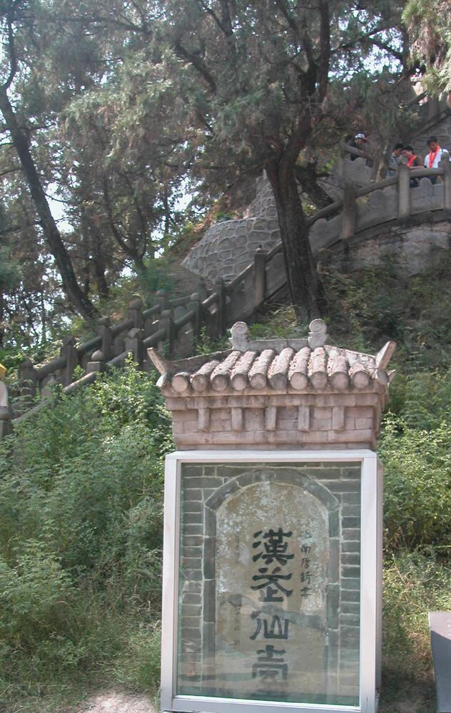 Mausoleum of the Yellow Emperor 中文（中国大陆）: 黄帝陵景观之二